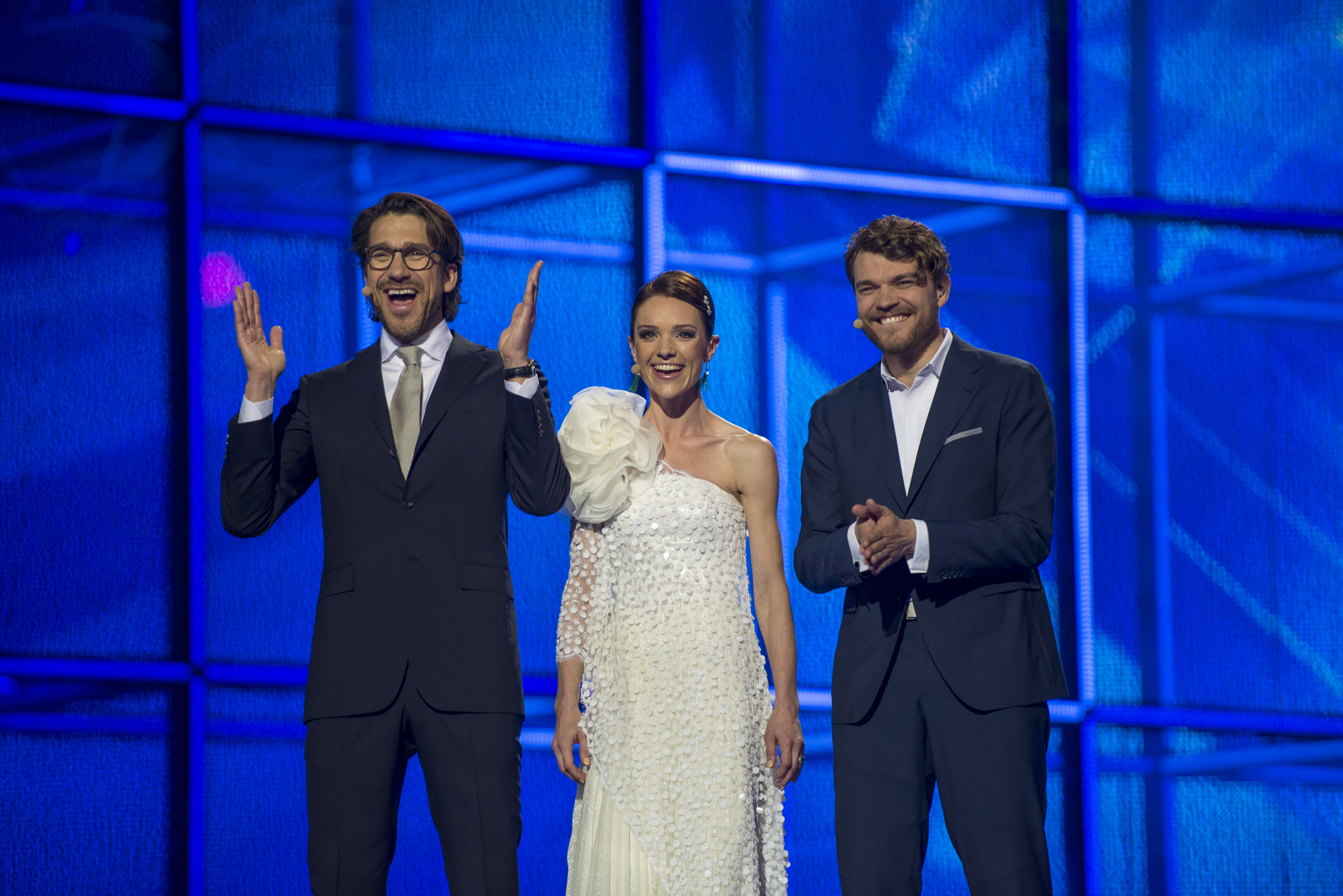 Nikolaj Koppel, Lise Rønne and Pilou Asbæk during the first dress rehearsal of the first semifinal of the Eurovision Song Contest 2014.